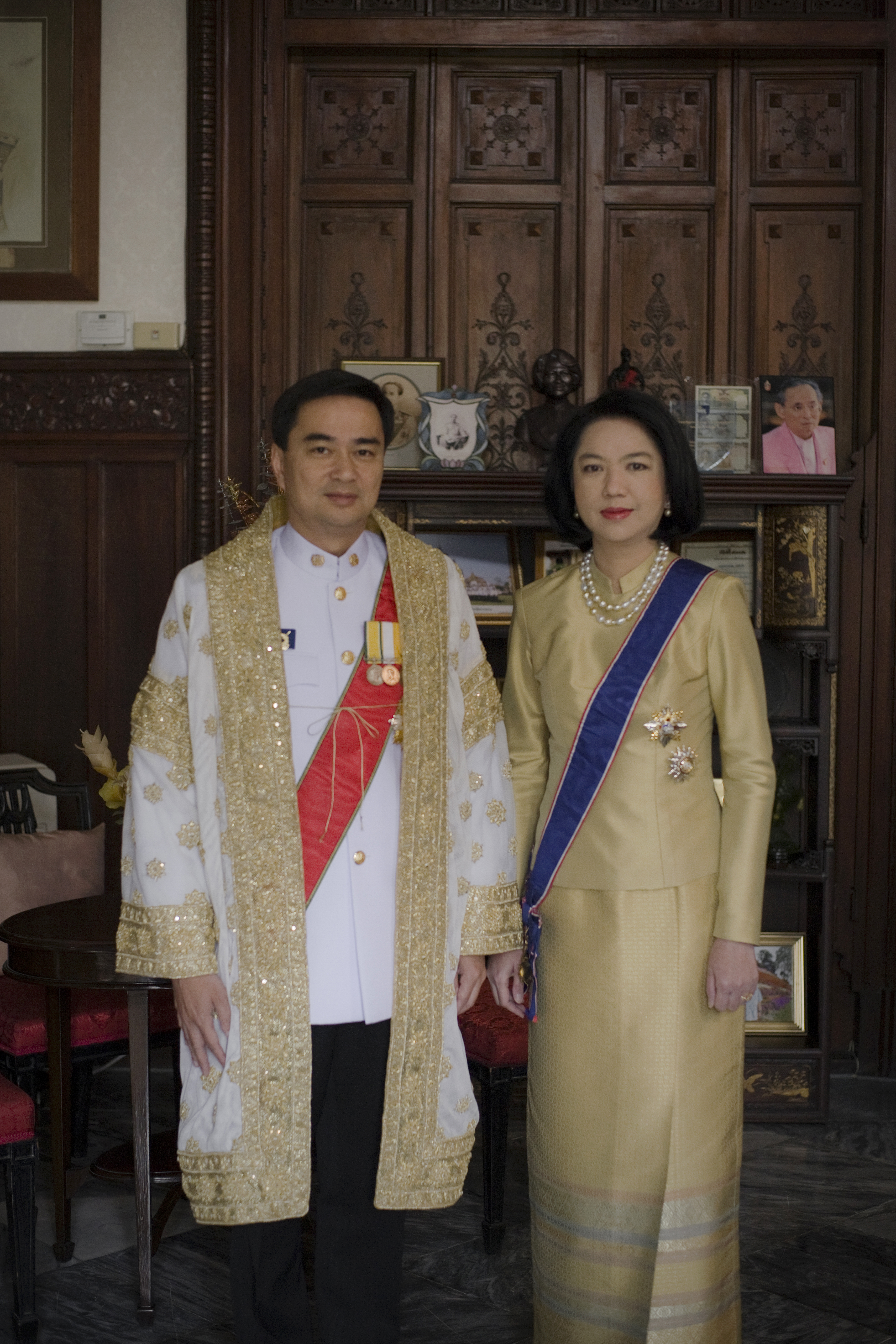 นายกรัฐมนตรีและภริยา ลงนามถวายพระพรชัยมงคลเนื่องในวันเฉลิมพระชนมพรรษาพระบาทสมเด็จพระเจ้าอยู่หัว ณ ห้องแดง ศาลาว่าการพระราชวังในพระบรมมหาราชวัง วันอาทิตย์ ที่ 5 ธันวาคม พ.ศ.2553 (Photographer attached to the Prime Minister of the Kingdom of Thailand : Peerapat Wimolrungkarat / พีรพัฒน์ วิมลรังครัตน์) @is50mm